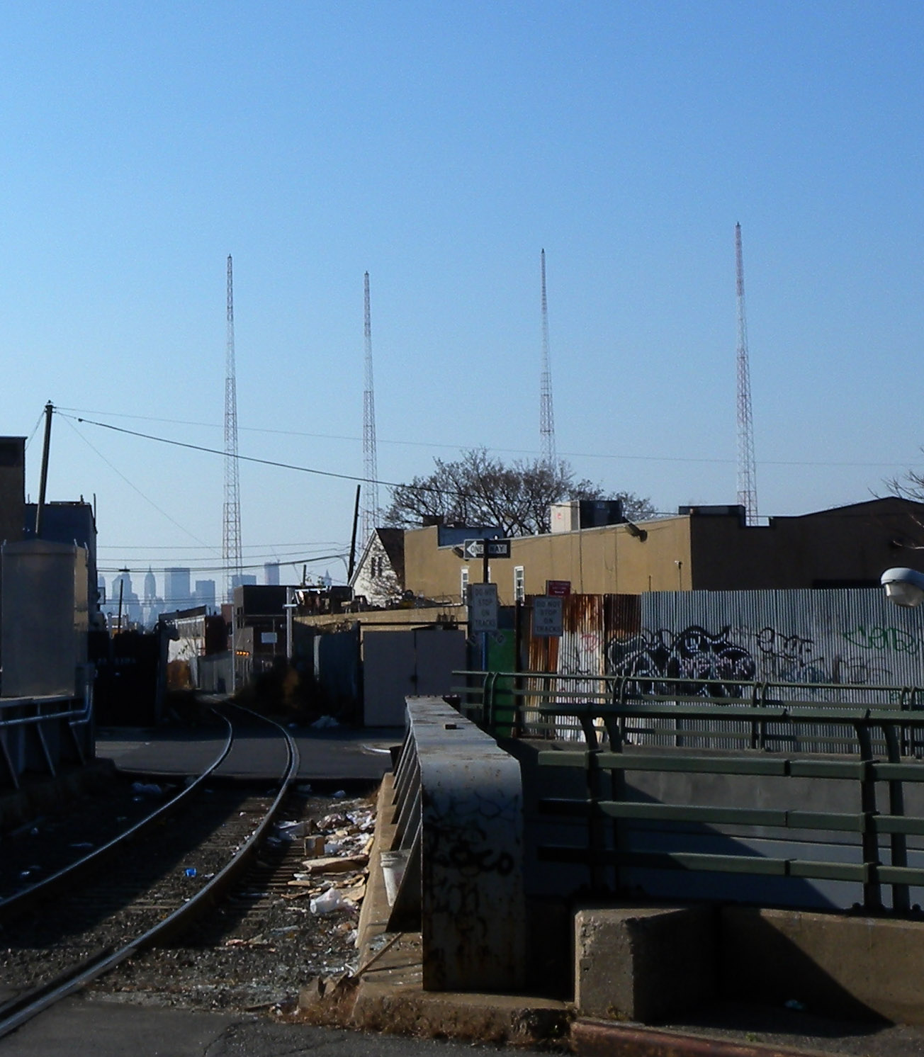 Looking west across Flushing Avenue along Bushwick Line towards four towers of WQEW AM radio broadcaster in Maspeth on a sunny midday. EXIF places us west of Flushing Avenue, due to photographer's error.